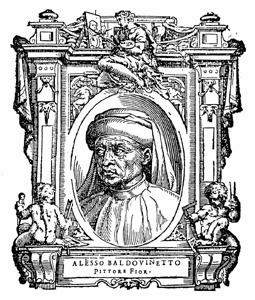 Illustratio from "Le Vite" by Giorgio Vasari, edition of 1568. For the artist portrayed see filename